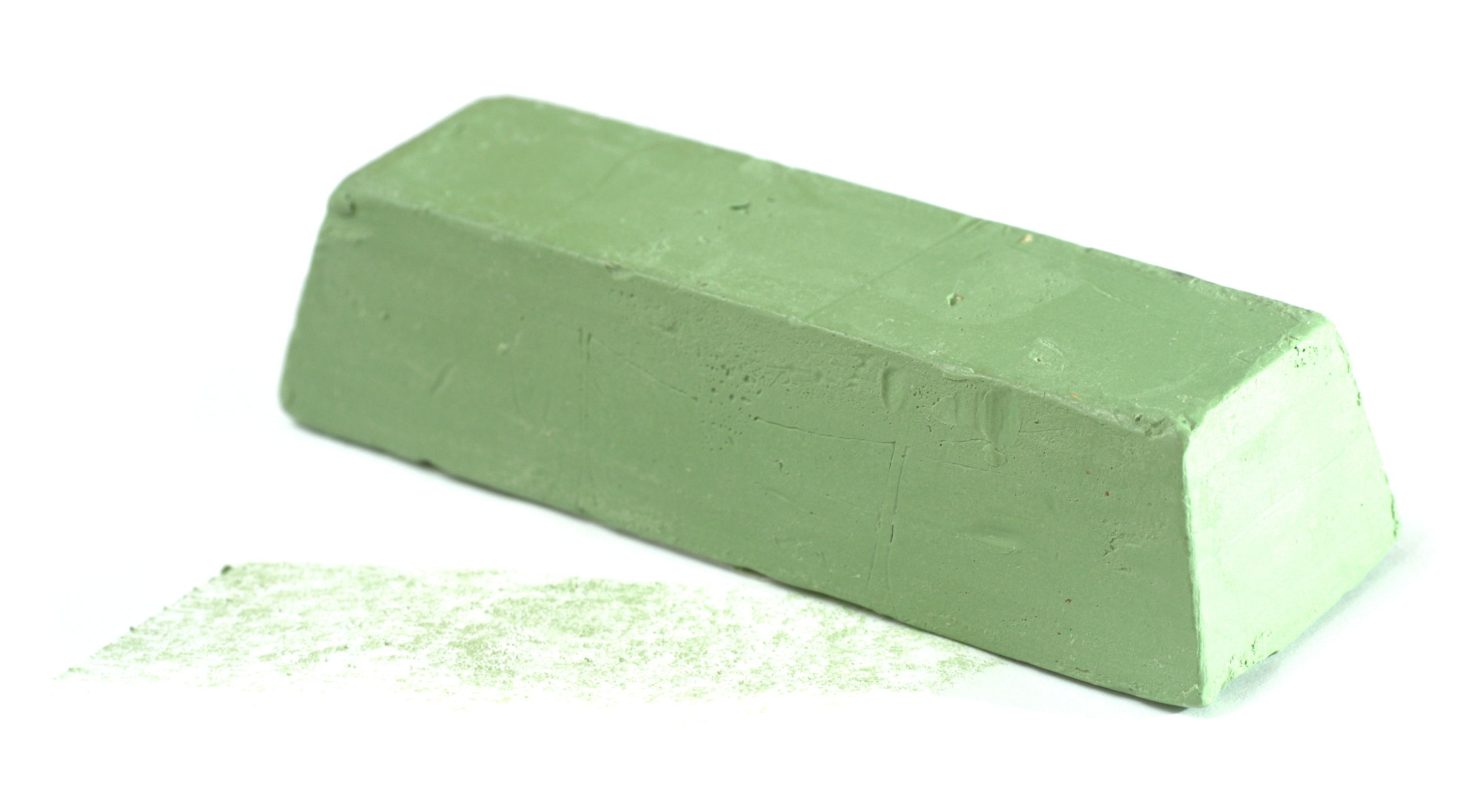 Polishing paste medium, green